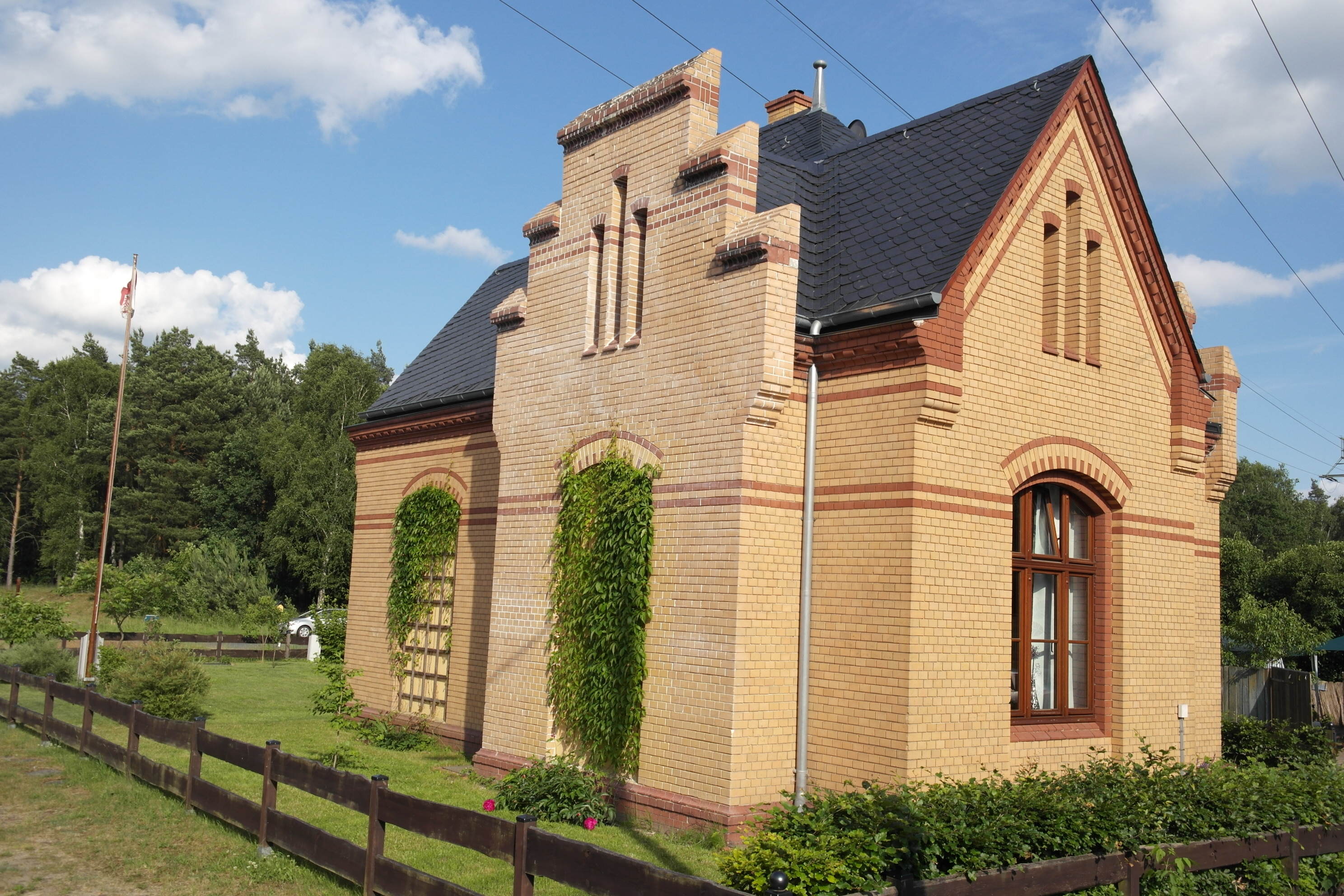 Zehdenick-Neuhof train station, cultural heritage, "Kaiserbahnhof"